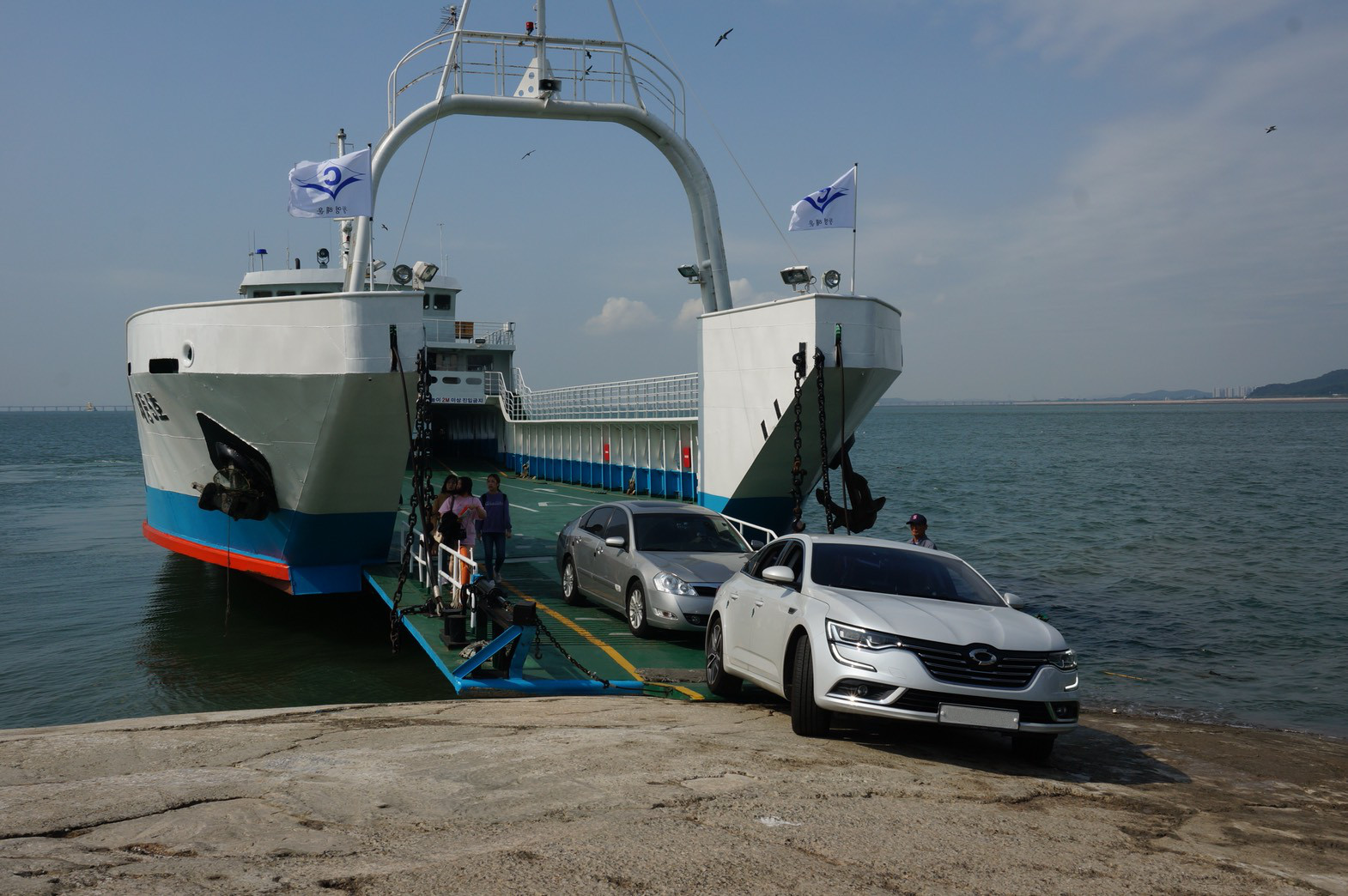 Wolmido Island (월미도) (Thanks to Y's lens.)